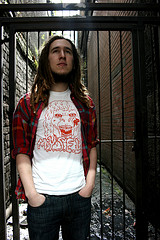 Promo picture of music artist Firebrand Boy